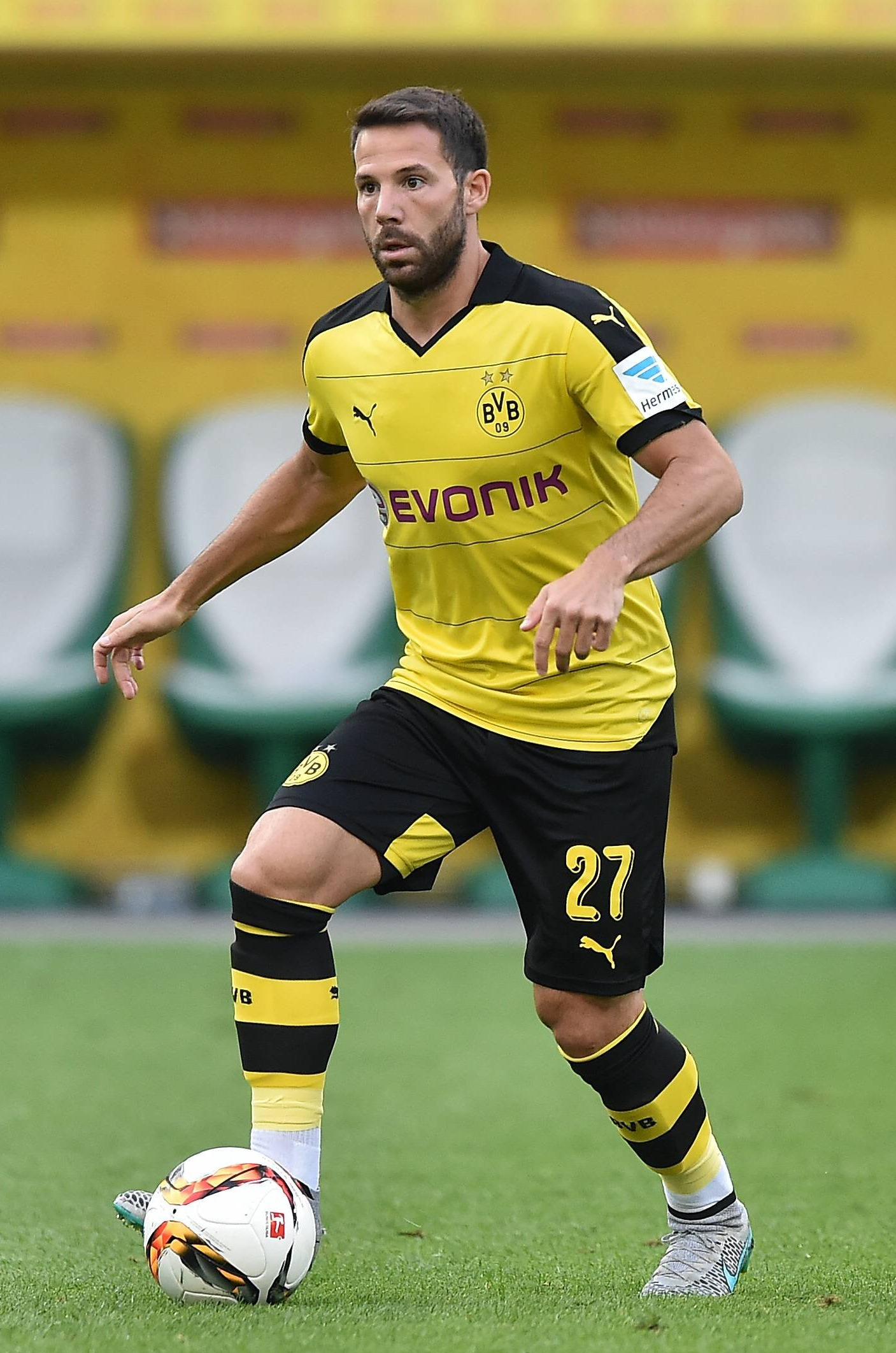 Gonzalo Castro playing with Dortmund